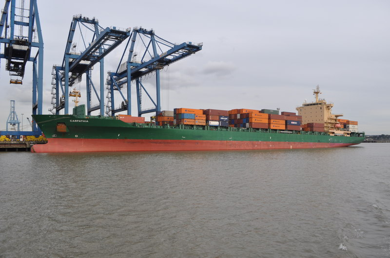 Carpathia Unloading at Tilbury docks, near to Northfleet, Kent, Great Britain. The freighter unloading at the docks, she is leaning after having the front end unloaded first.